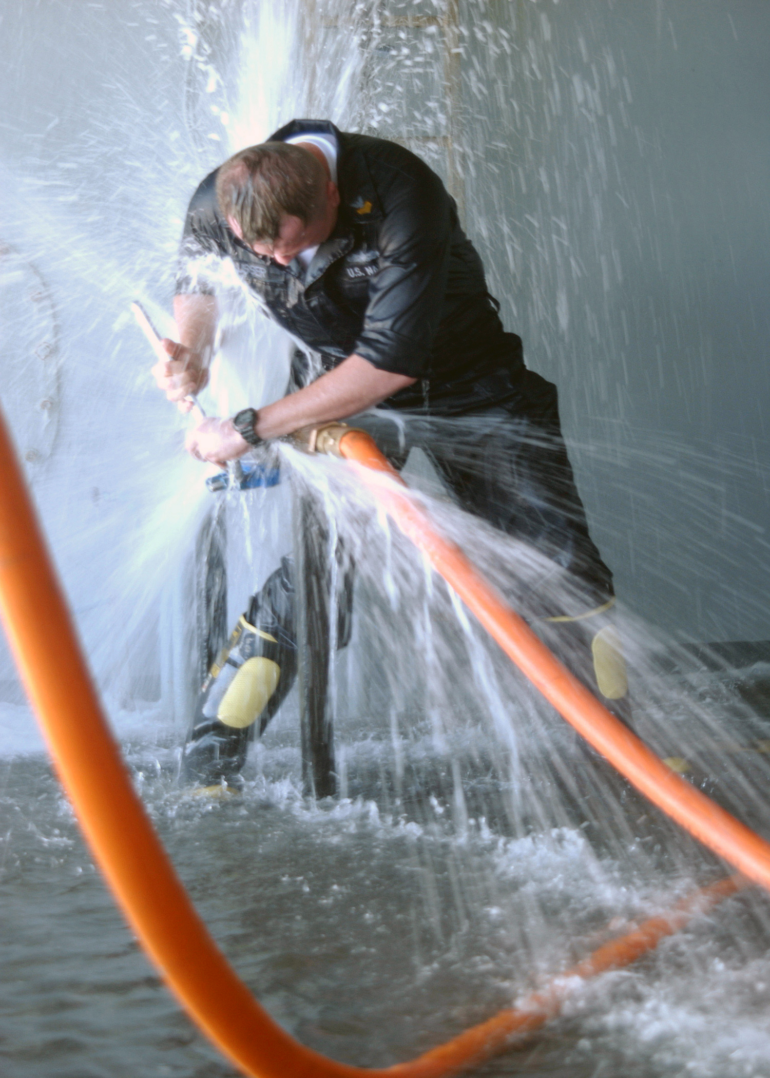 At sea aboard USS Abraham Lincoln (CVN 72) Aug. 11, 2002 -- Damage Controlman 1st Class Bill Slusser from Jacksonville, Fla., practices pipe-patching techniques during a ‘Damage Control Fair’ held aboard the aircraft carrier. Lincoln and its embarked Carrier Air Wing Fourteen (CVW-14) are on a regularly scheduled deployment, and will join the USS George Washington in the Arabian Gulf to conduct missions in support of Operation Enduring Freedom. U.S. Navy photo by Photographer's Mate 3rd Class Tyler Clements. (RELEASED)